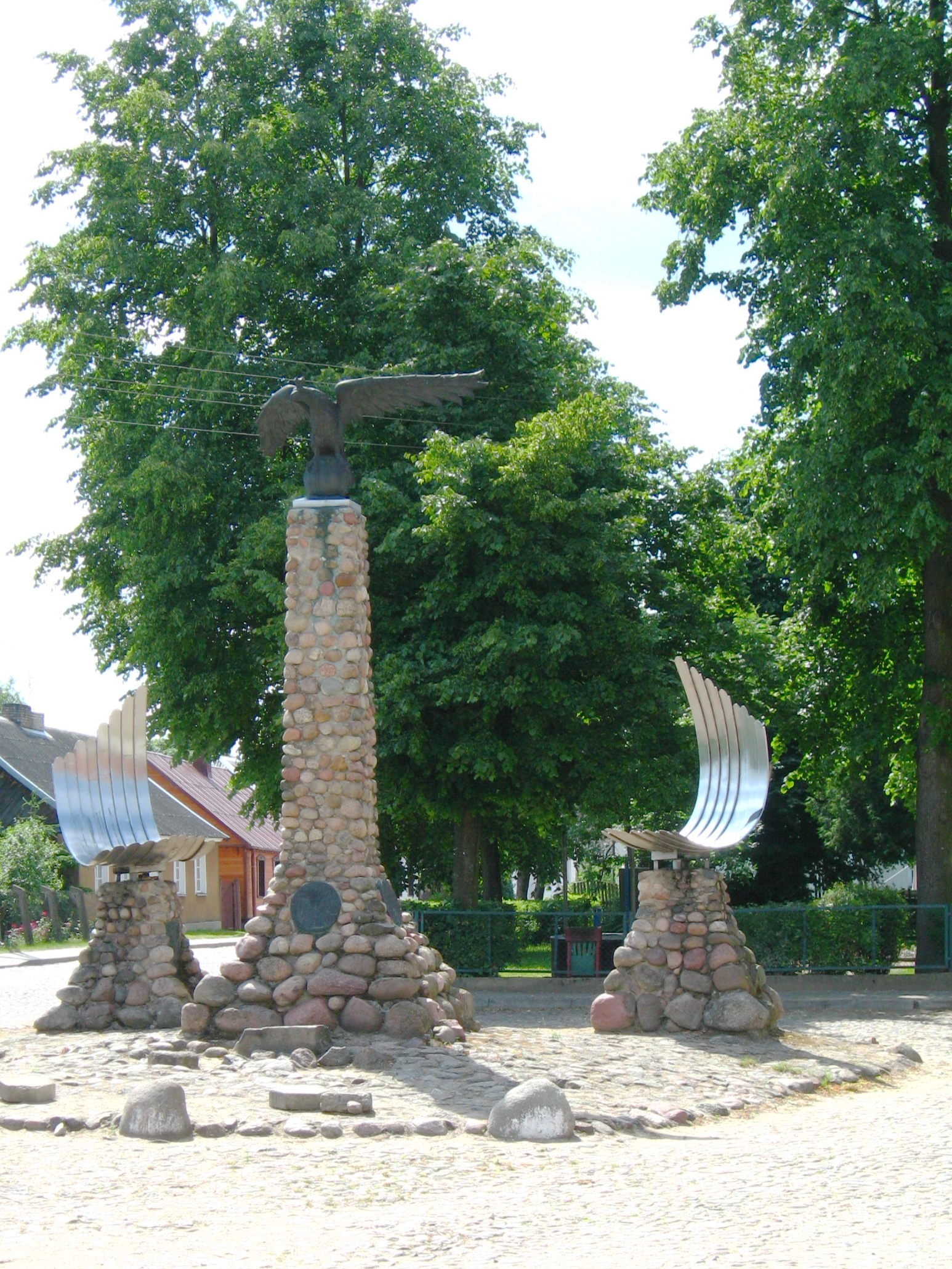 Monument of White Eagle from the year 1982.